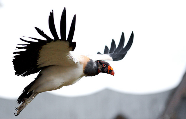 King vulture (Sarcoramphus papa) in flight, North Dakota zoo.